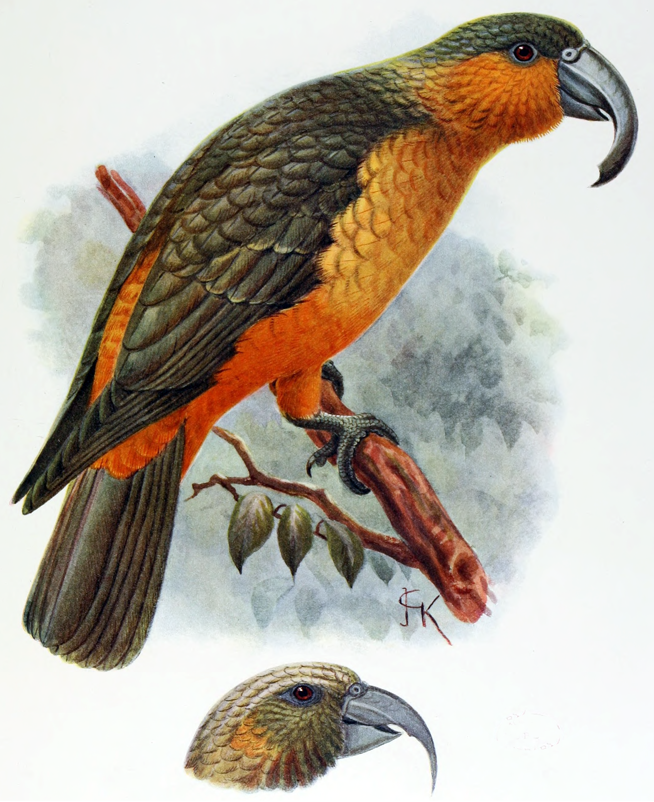 The Norfolk Island Kākā (Nestor productus) is an extinct species of large parrot with a prominent beak. Its plumage was olive-brown, with an orange throat and straw-coloured breast. Plate 6 shows "Nestor norfolcensis" and the head of "Nestor productus". The former is nowadays regarded as a synonym of the latter. From the plate in the Bulletin of the Liverpool Museum. From the specimen in the Tring Museum.